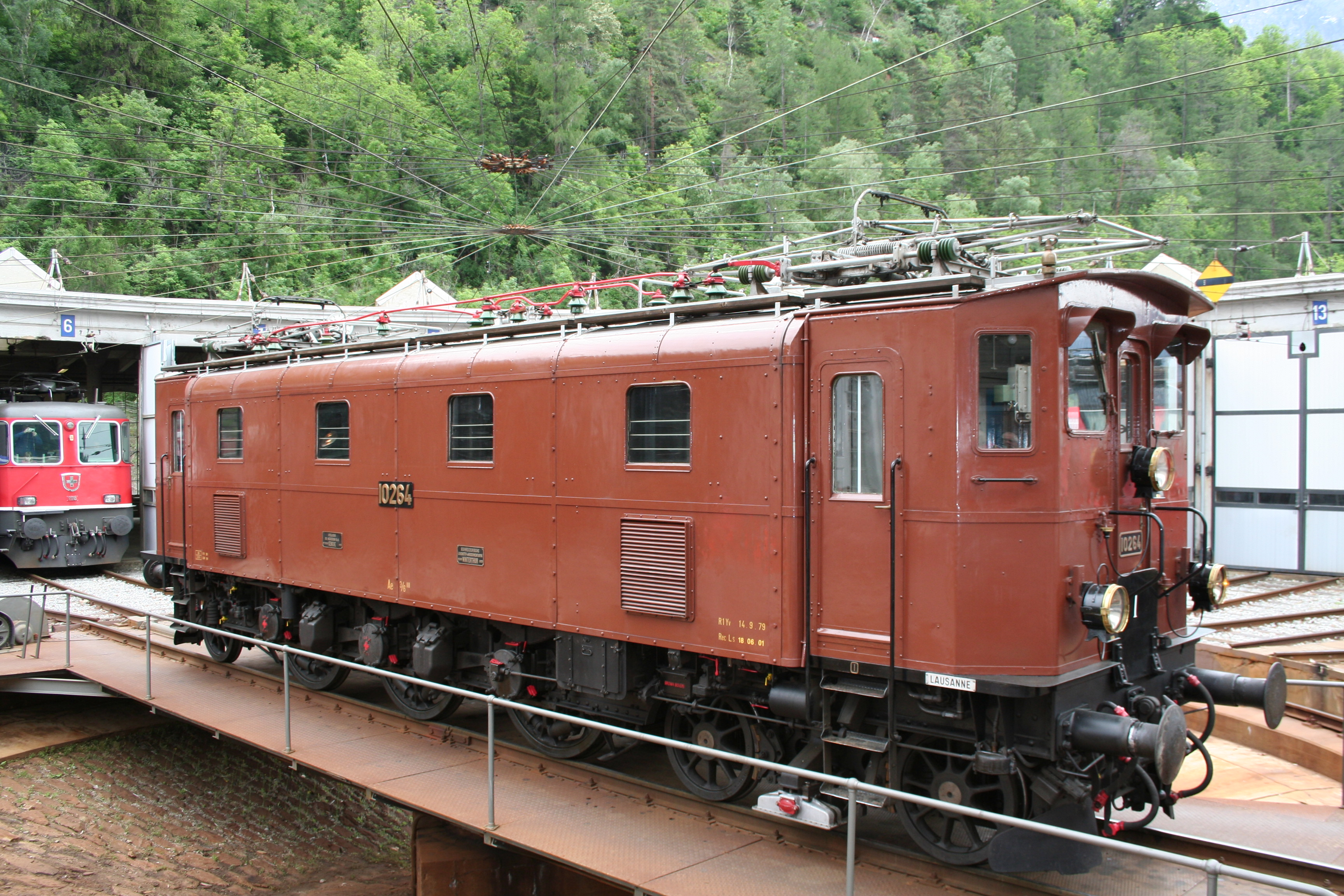 SBB Ae 3/6 III on the turntable at Brig station, on the occasion of the 100 years Simplon tunnel jubilee